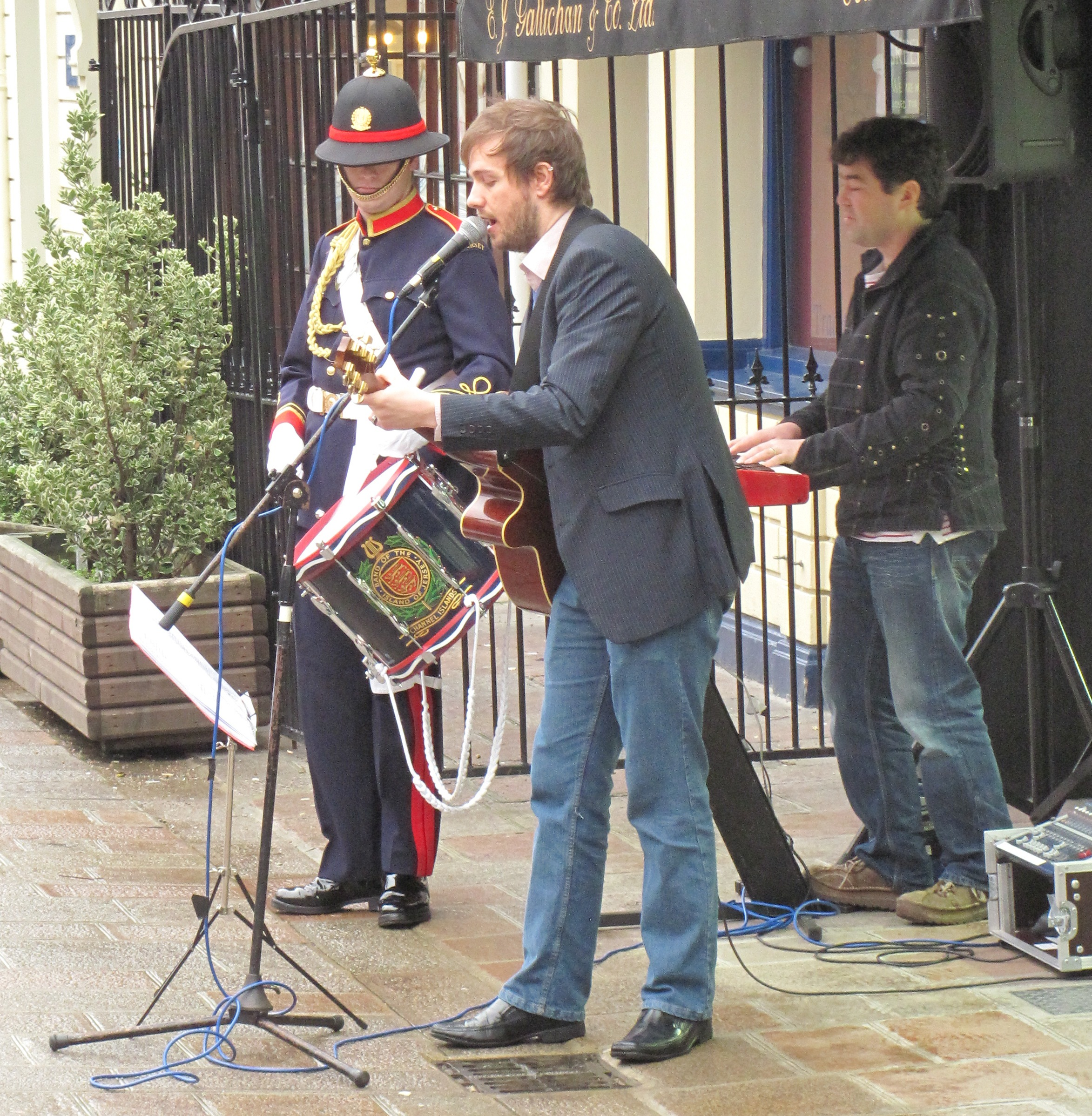 Battle of Jersey commemoration 2013 in the Royal Square, Saint Helier